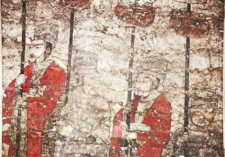 Mural Painting from the Tomb of Kao Yang (高洋), Northern Ch'i (550-577).